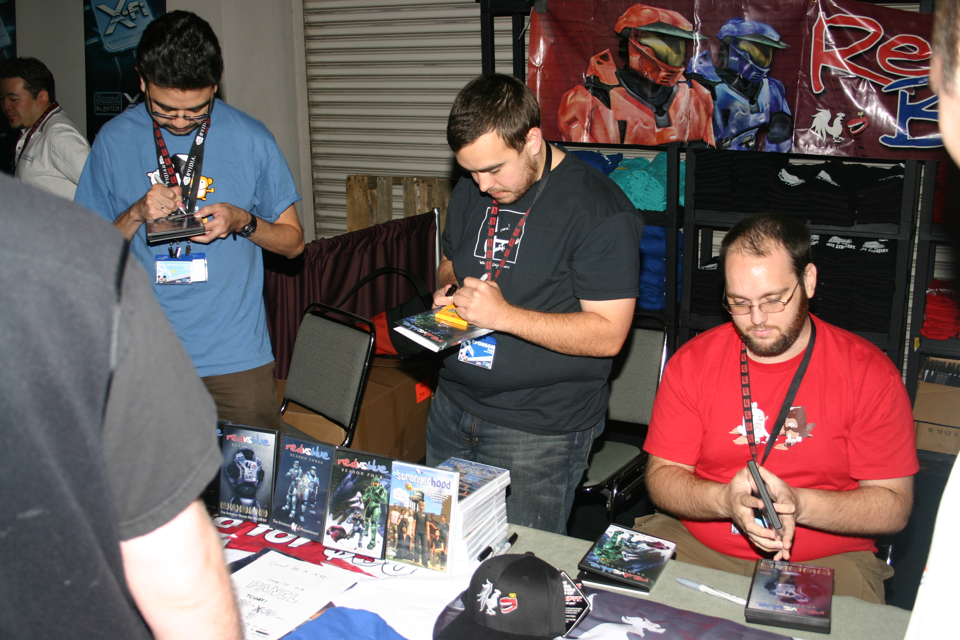 Gus Sorola, Jason Saldaña, and Dan Godwin giving autographs at the Red vs. Blue merchandise booth at PAX 2006.